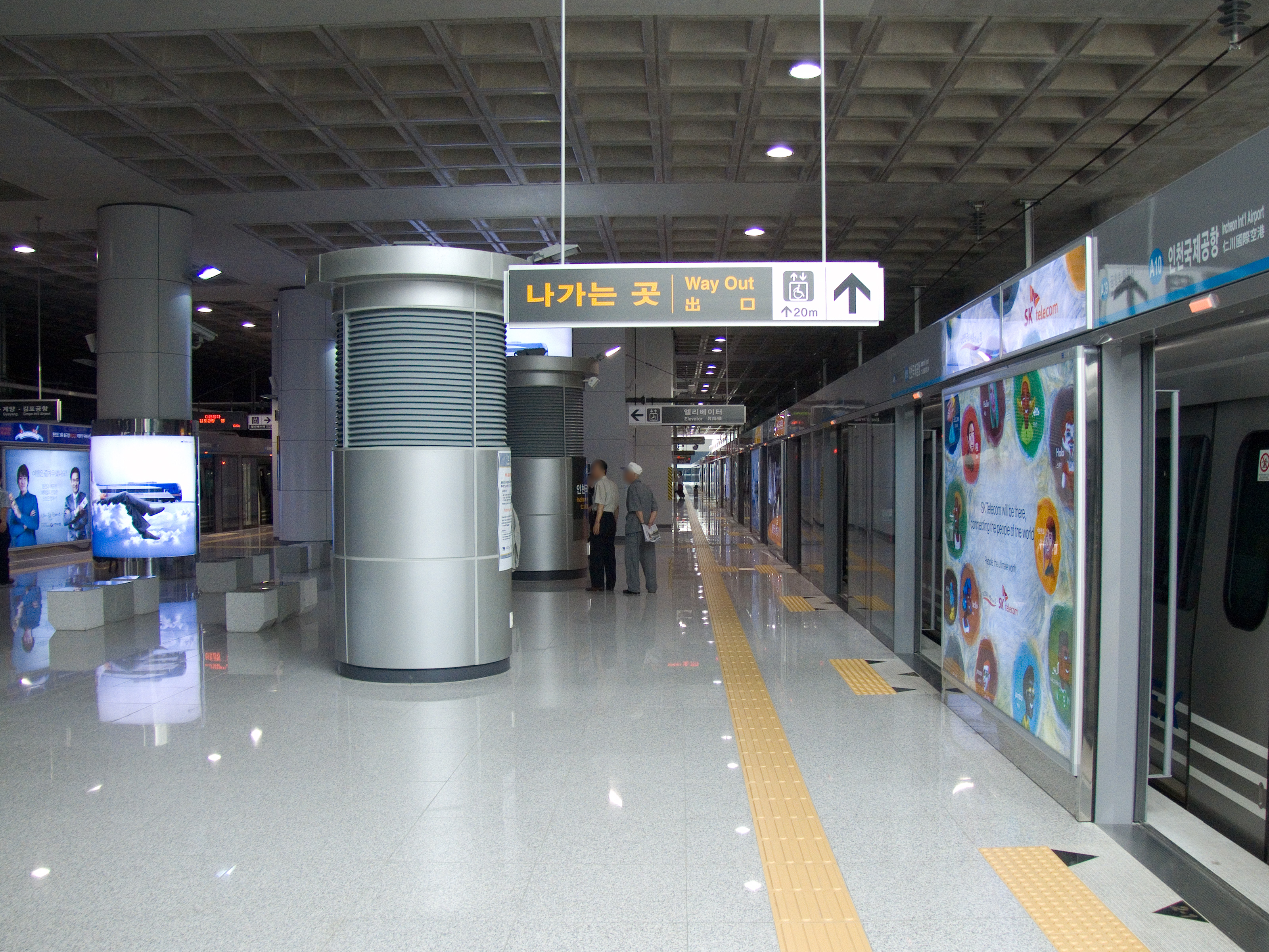 The platform at Incheon Int'l Airport Station(renamed to 'Incheon International Airport Terminal 1 Station' in 2017)